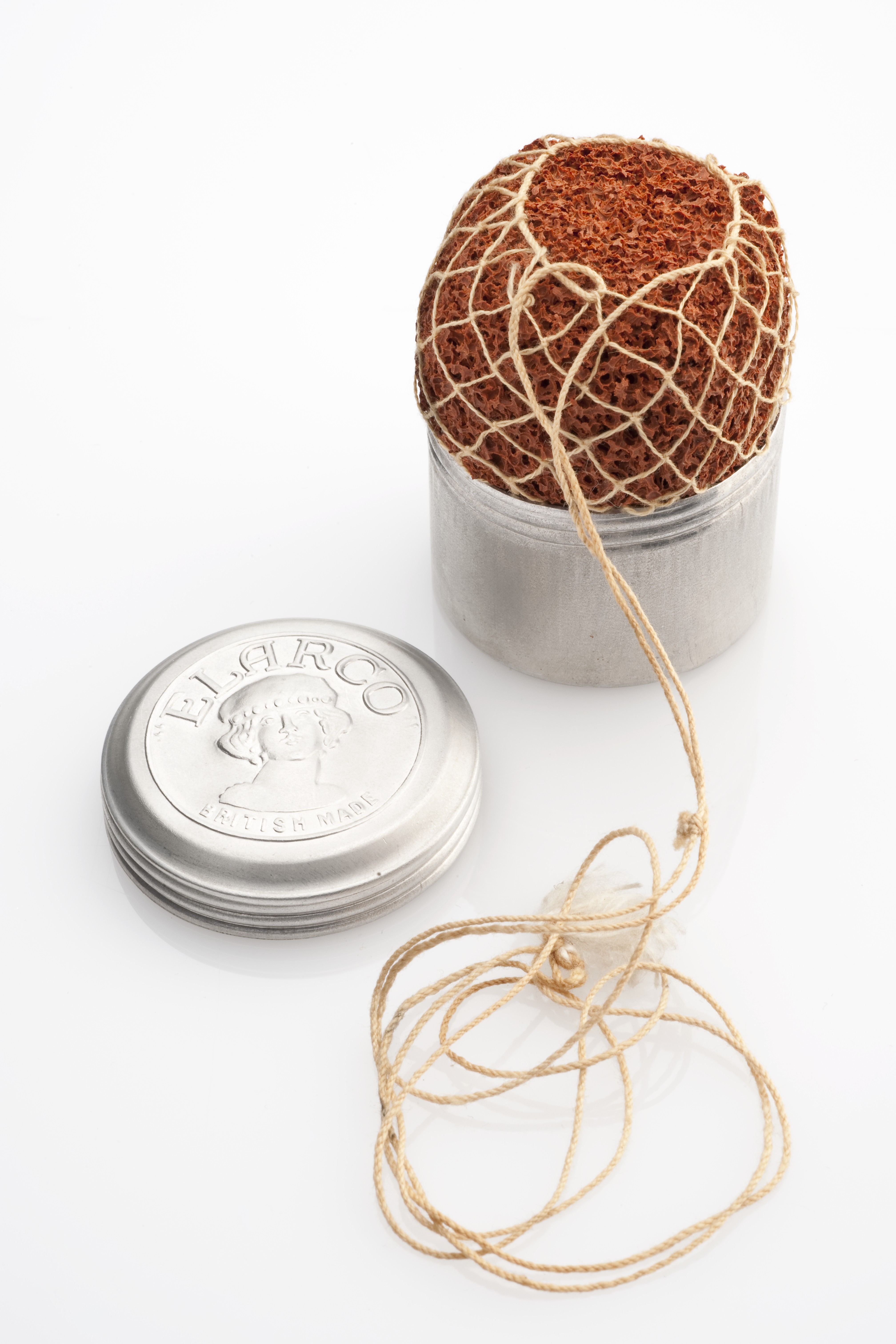 Sponges were widely used as contraception in the early 1900s. This contraceptive sponge is made of rubber. Sponges were one of a range of contraceptives promoted by the Society for Constructive Birth Control. The organisation was founded by Dr Marie Stopes (1880-1958). Stopes founded the first of her birth control clinics in Holloway, North London in 1921. She is best remembered as a feminist and a birth control pioneer. This object was donated by the Marie Stopes Memorial Foundation. The contraceptive sponge is in its original aluminium box. It was manufactured in Britain by Elarco. maker: Elarco Place made: United Kingdom Wellcome Images Keywords: Contraception; contraceptive sponge